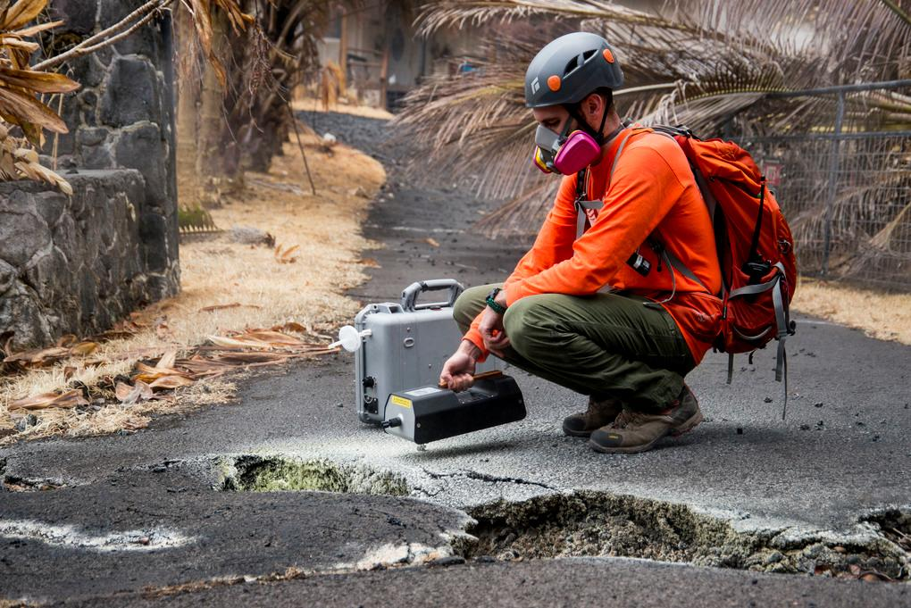 Pāhoa, Hawaii, May 19, 2018 – U.S. Geological Survey (USGS) volunteer Allan Lerner uses hydrogen sulfide (H2S) and sulfur dioxide (SO2) sensors to test the air quality after the Kīlauea volcanic eruption. The residential area of Leilani Estates has been evacuated due to the high concentration of SO2 emitting from the cracks in the earth that spilled lava into the subdivisions. At the request of the state, FEMA staff are on the ground to support local officials with life-saving emergency protective measures, debris removal, and the repair, replacement, or restoration of disaster-damaged publicly-owned facilities. Photo: Grace Simoneau/FEMA